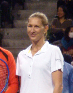 Steffi Graf at „Dream Match 2008“, March 15, 2008 in Tokyo